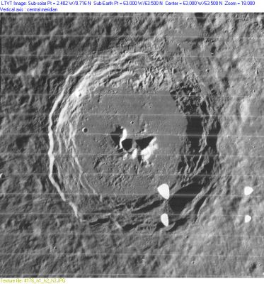 Pythagoras lunar crater - Lunar Orbiter IV image LO-IV-176H.